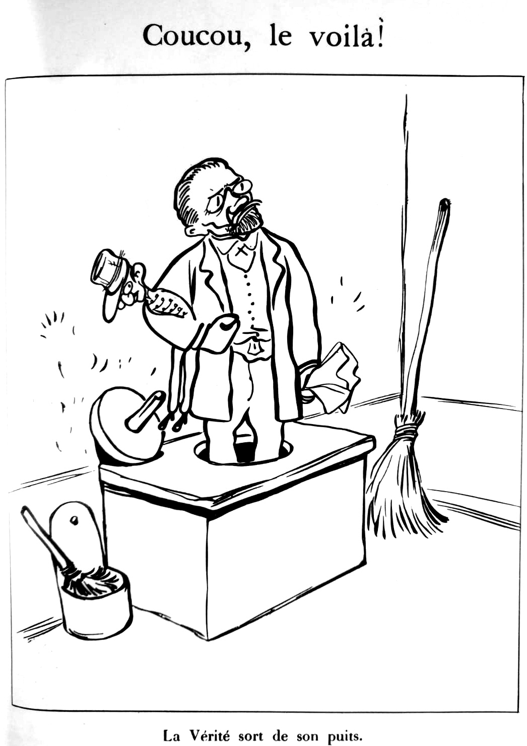 Truth emerges from its source - caricature condemning Émile Zola for supporting Alfred Dreyfus